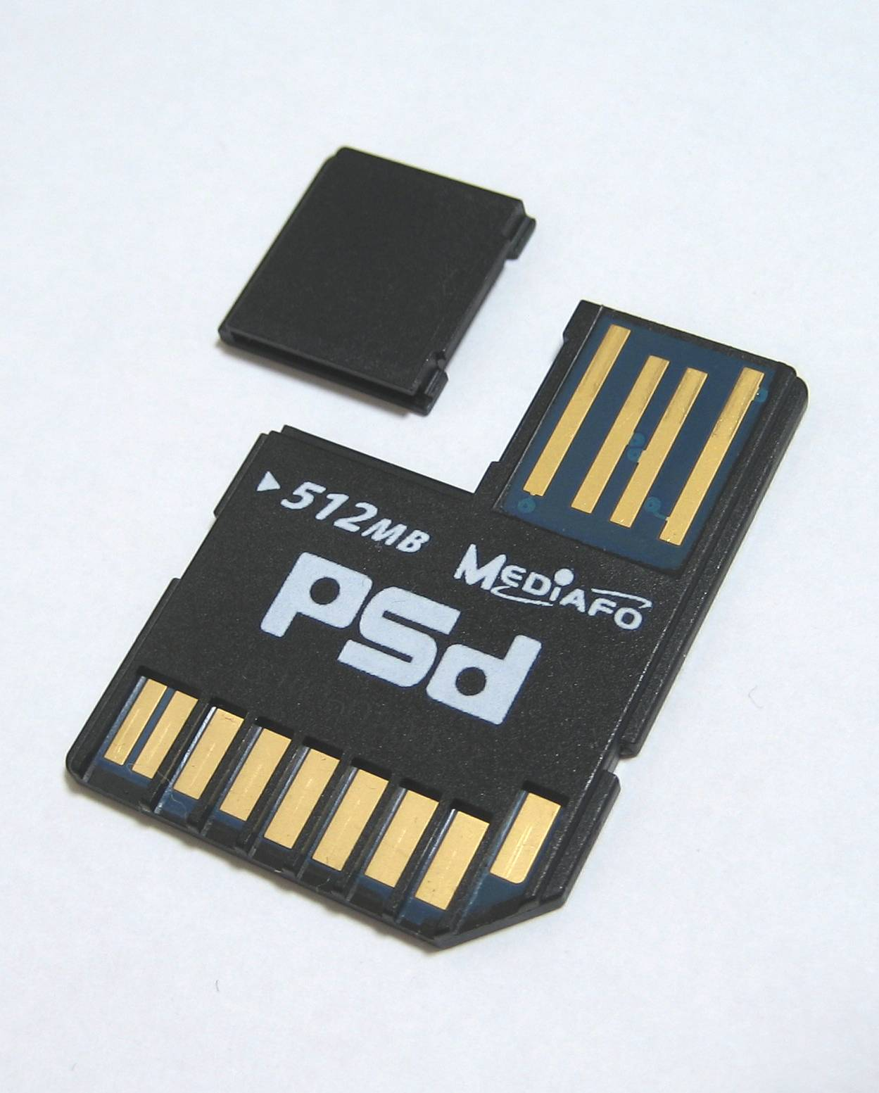 Mediafo PSd (Personal Storage Disc) 512MB.